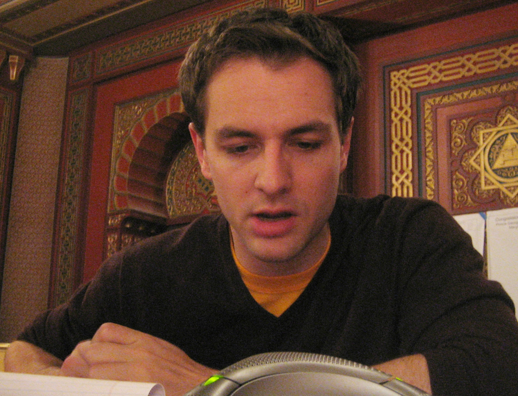 Robby Mook during the campaign for the Maryland gubernatorial election, 2006